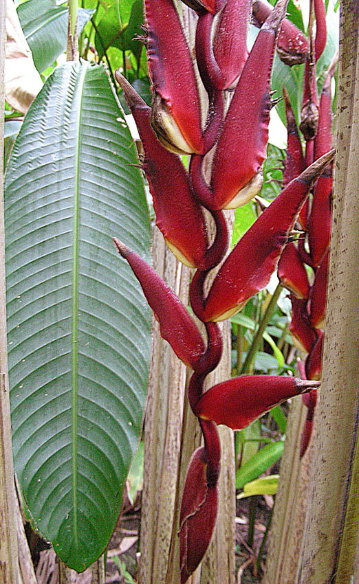 Photo from near Honda, Colombia, and endemic to that country. In context at